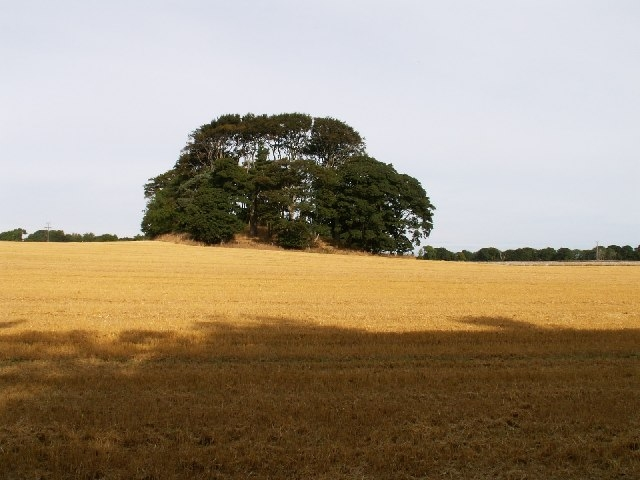 Pitmilly Law, near Boarhills,Fife,Scotland. A Bronze Age barrow (burial mound or tumulus), located between St. Andrews and Kingsbarns. Several cists (stone tombs) have been excavated from this barrow. Co-ordinates:56.18.8063N, 2.41.2185W